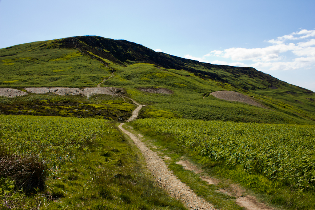 Approaching Cringle Moor from the east, on the Cleveland Way National Trail.